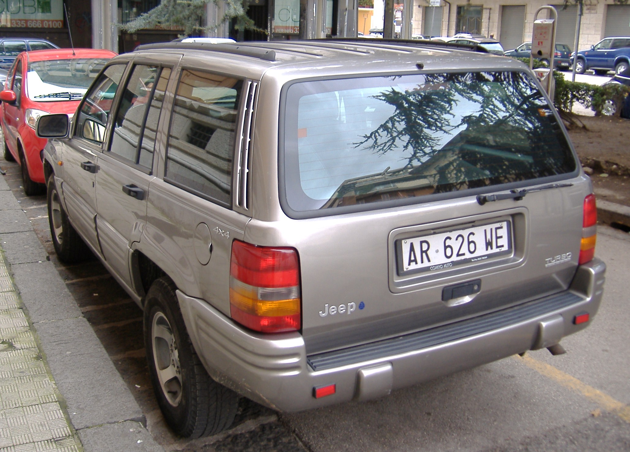 Jeep Grand Cherokee